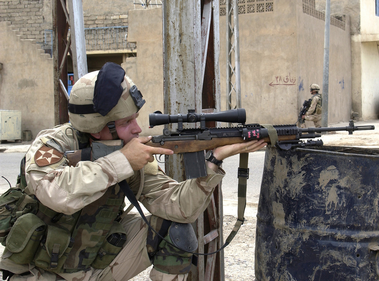 A sniper of the 1st Battalion, 23rd Infantry Regiment, 2nd Infantry Division, U.S. Army, takes aim while on patrol on an urban Iraqi street, on 13 May 2004. The Soldier wears an Interceptor Body Armor system, Outer Tactical Vest variant, sans the collar and groin protector devices.